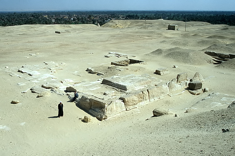 South tomb, south pyramid of Sesostris I, Lisht, Egypt